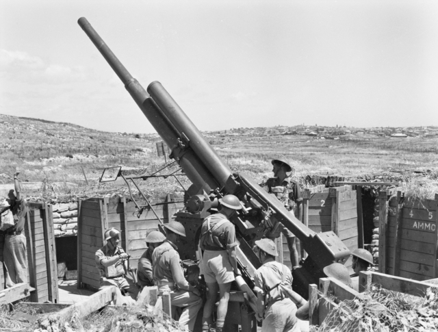 AWM caption : FREMANTLE, WA. 1943-11-15. CREW OF A HEAVY ANTI-AIRCRAFT GUN OF HEADQUARTERS, 29TH AUSTRALIAN HEAVY ANTI-AIRCRAFT BATTERY, FREMANTLE FIXED DEFENCES AT ACTION STATIONS.